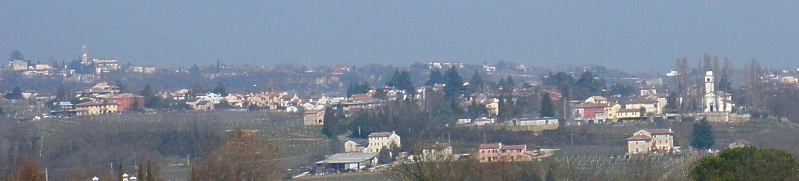 Rua and Santa Maria di Feletto (San Pietro di Feletto, Italy) - View from hills of Collalto